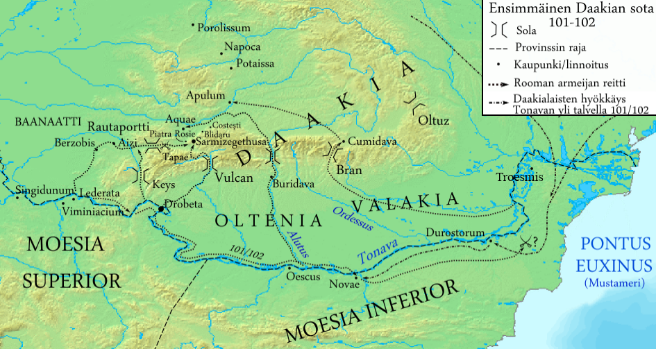 Map of the First Dacian War 101-102